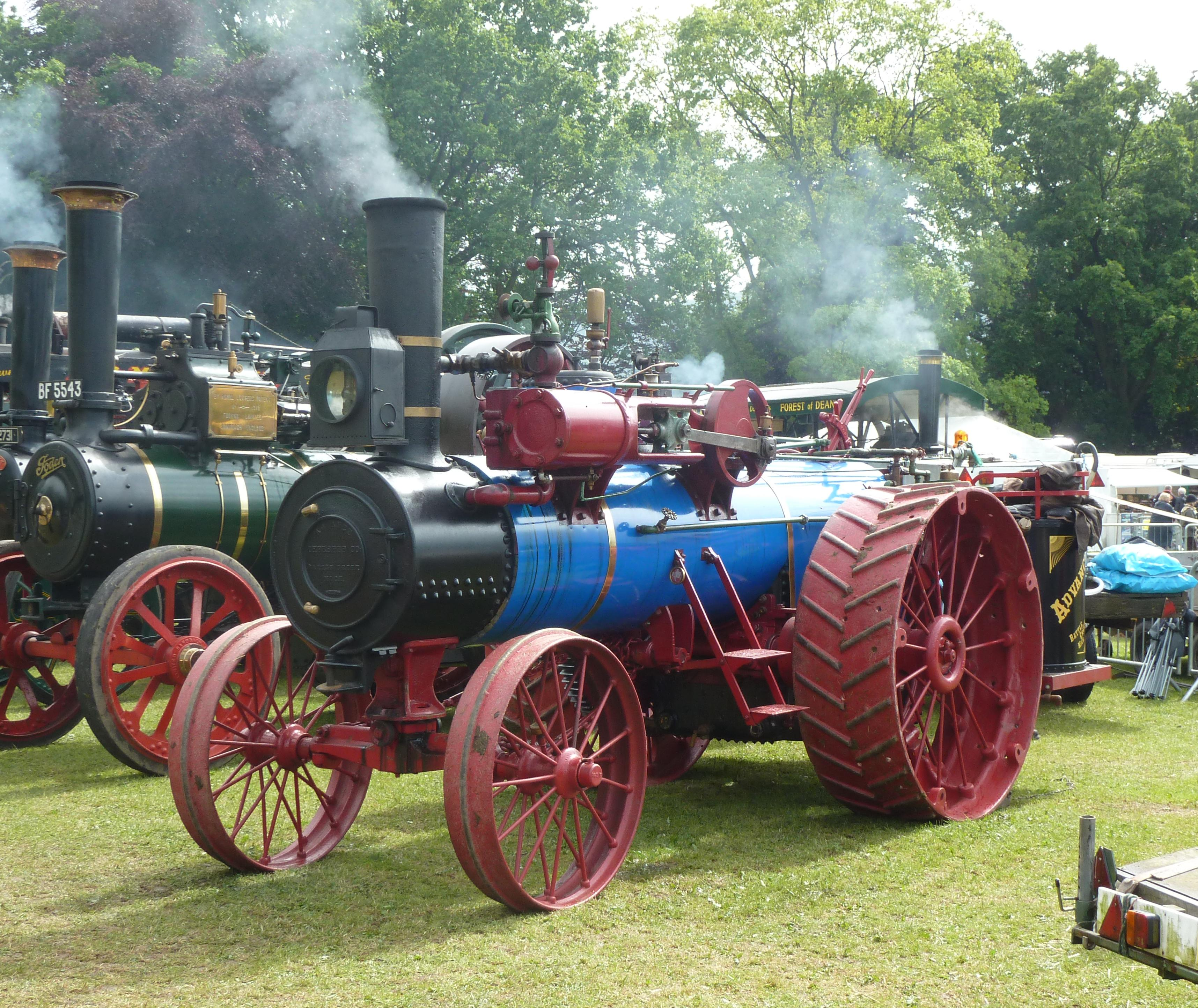 Steam traction engine built by the Advance Thresher Co. of Battle Creek. Abergavenny steam rally, 2011.